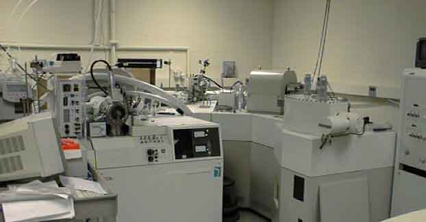 JEOL five sector (BEBEE) mass spectrometer.